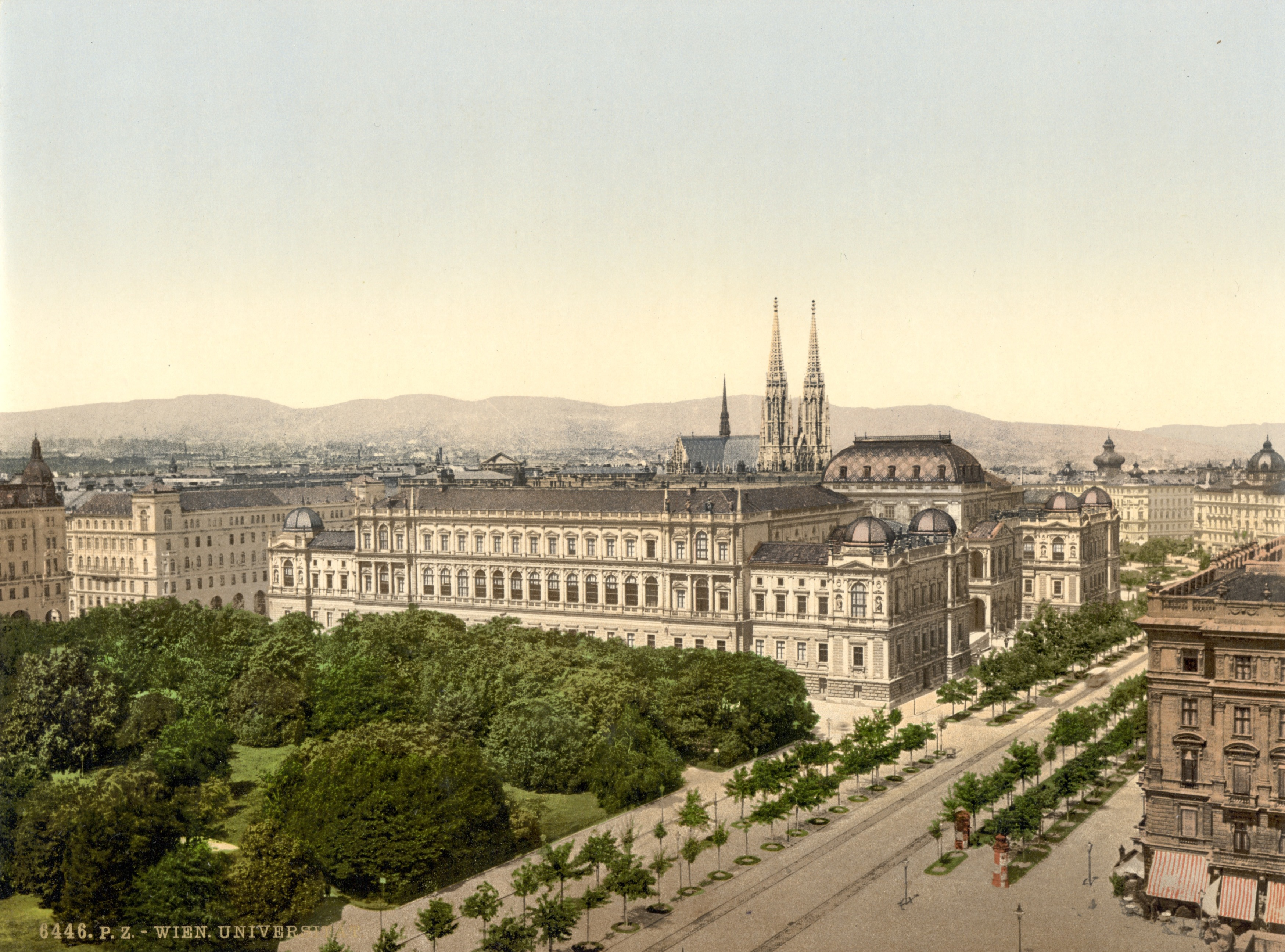 Forms part of: Views of the Austro-Hungarian Empire in the Photochrom print collection.; Print no. "6446".; Title from the Detroit Publishing Co., Catalogue J-foreign section, Detroit, Mich. : Detroit Publishing Company, 1905.